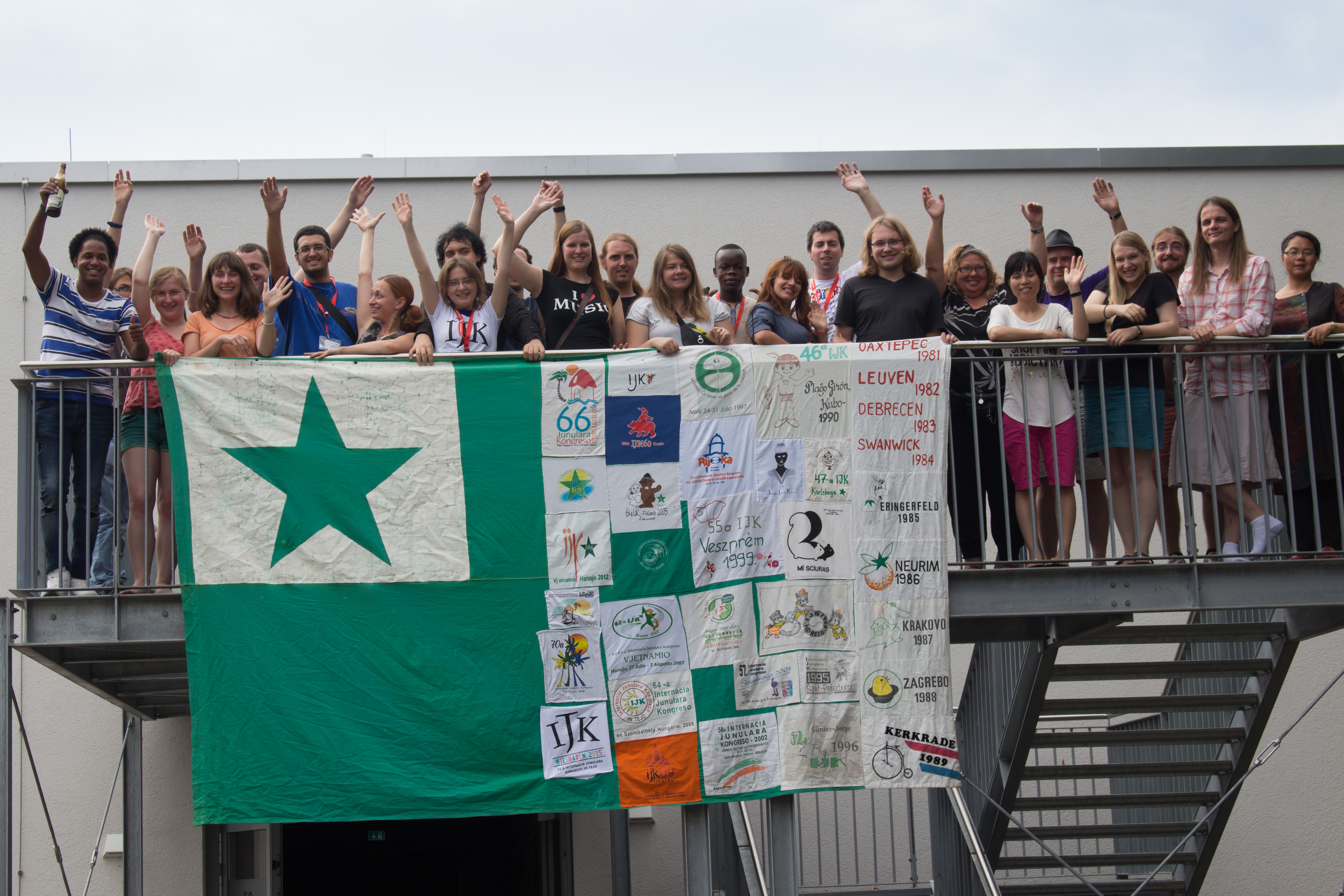 Some of the participants of the 71th International Youth Congress of Esperanto with the Congress Flag in Wiesbaden, Germany.